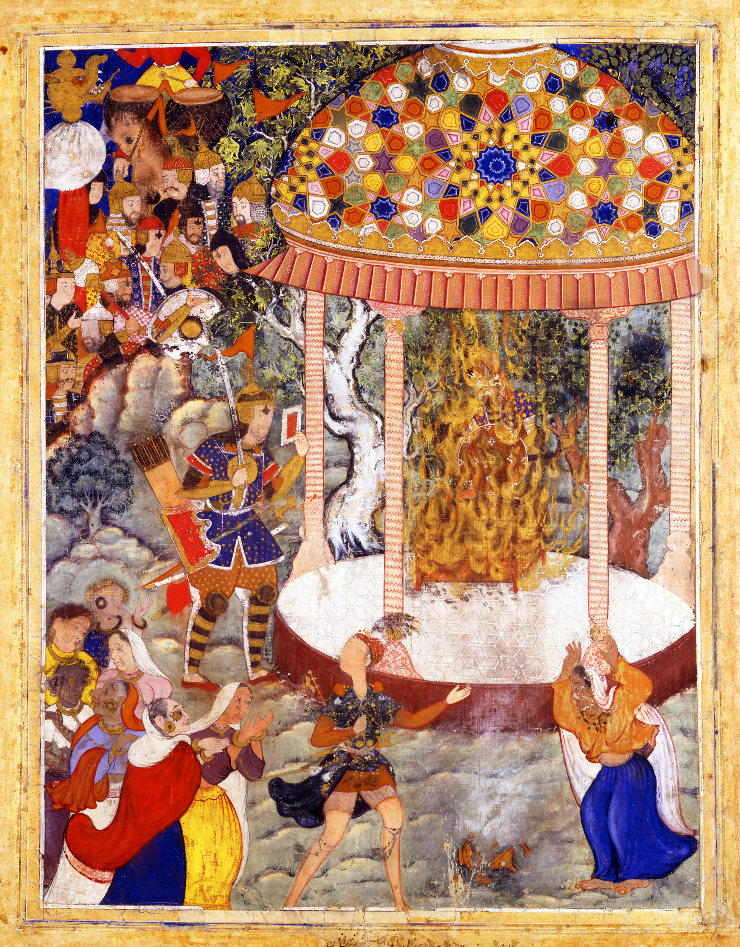 It took some 15 years to complete the Great Mughal Akbar’s copy of the Hamza-nama, which originally contained about 1400 miniatures. This was a gigantic project in every respect, a collaborative effort by Persian and Indian artists that is considered a pioneering work of early Mughal painting. The book is a fictitious account of the life of Hamza, the Prophet Muhammad’s uncle. Here we see Hamza in the process of burning and destroying the earthly remains of the Persian founder of Zoroastrianism, called Zarthust in the manuscript. Zarthust’s granddaughter, Manut, who raises her hands in horror, and the ugly women on the left are depicted as sorceresses.